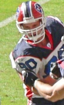 Samkon Gado of the Houston Texans advances the ball to the 1-yard line in the November 19, 2006 game against the Buffalo Bills.